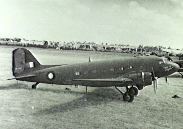 A Royal Air Force Dakota transport aircraft at Camden airfield near Sydney in 1945